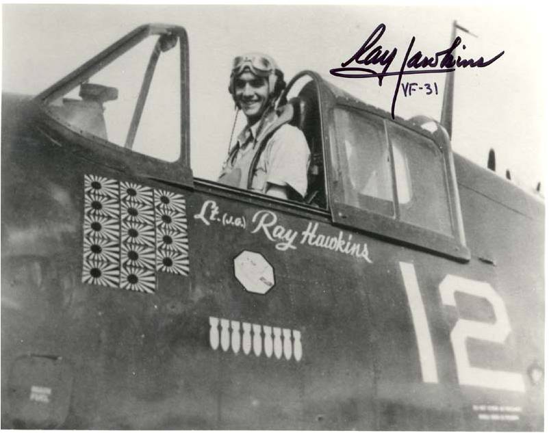 U.S. Navy LT(jg) Arthur Ray Hawkins in his Grumman F6F Hellcat during WWII.